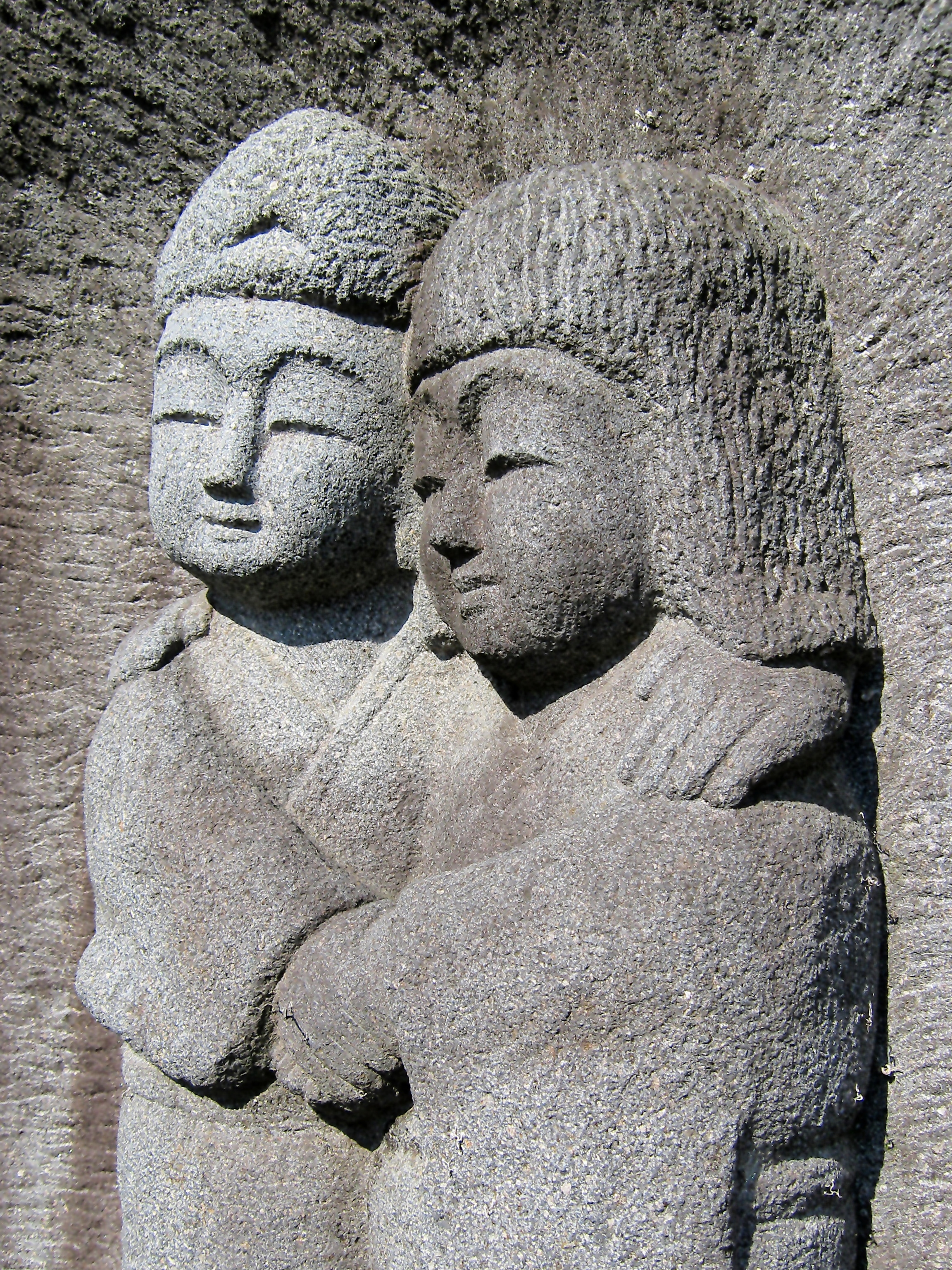 In Apr/May 2009, I took 15 days to walk all the way from Tokyo to Kyoto, roughly following the 546km long, ancient highway, the Nakasendo, alone. This picture was taken on day 4 of that long solo walk. Read about my preparations and my time in Japan at .